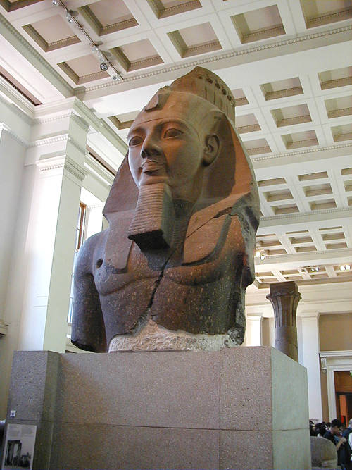 Colossal bust of Ramesses II, the 'Younger Memnon' in the British Museum, Ref. No. EA 19